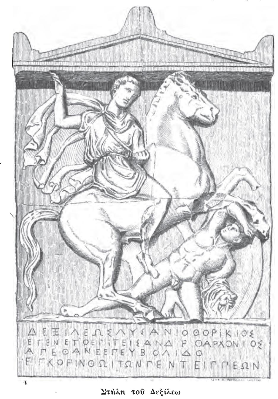 Hestia (1876) Author: Diomedes, Paulos Subject: Greek literature, Modern; Greek periodicals Publisher: [Athēnēsi : s.n. Year: 1894 Possible copyright status: NOT_IN_COPYRIGHT Language: Greek Digitizing sponsor: Google Book from the collections of: Harvard University Collection: americana]